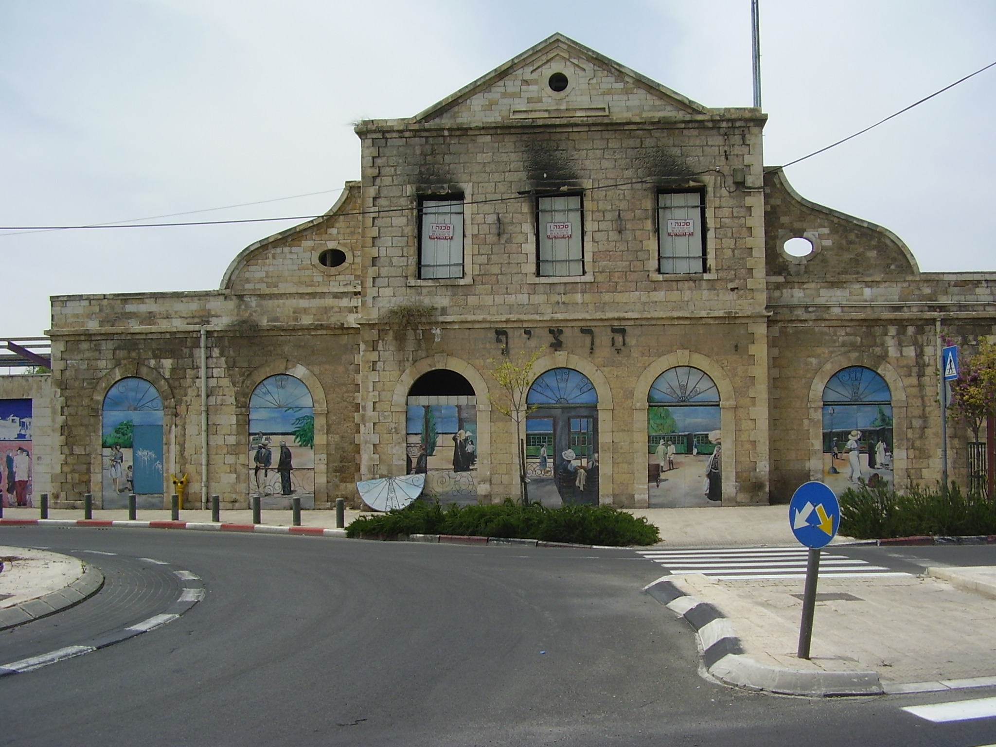 jerusalem old train station